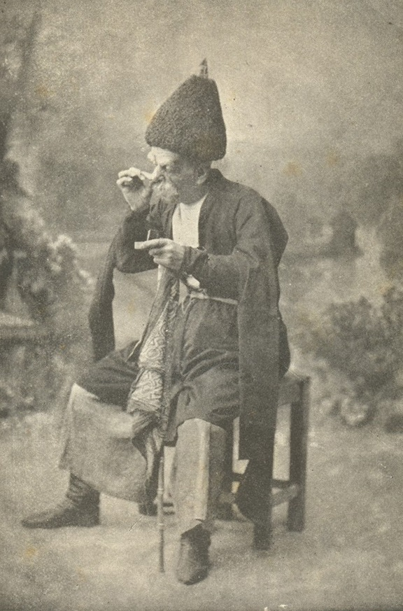 Vaso Abashidze.